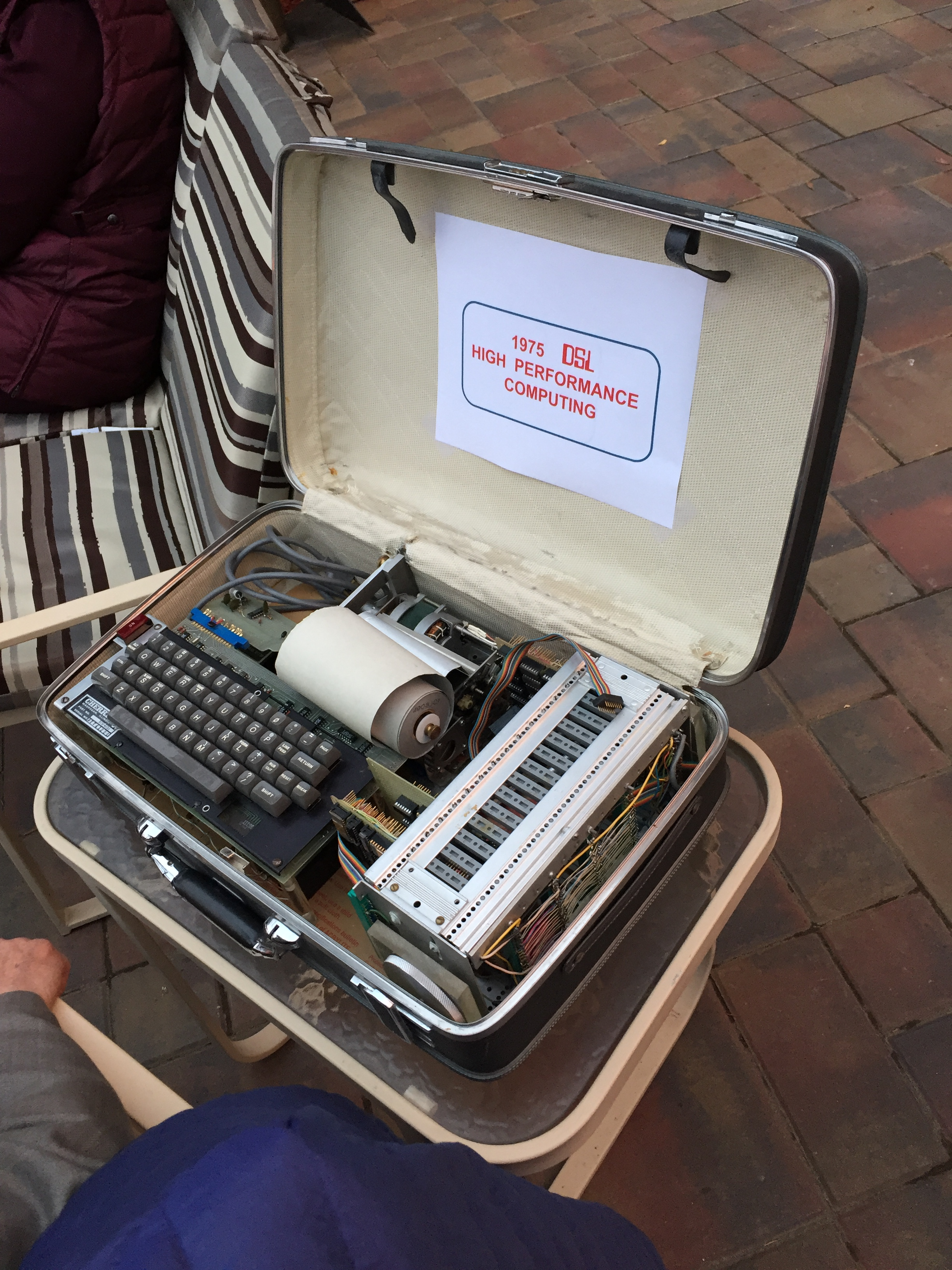 The MIT Suitcase Computer, the first known microprocessor-based portable computer